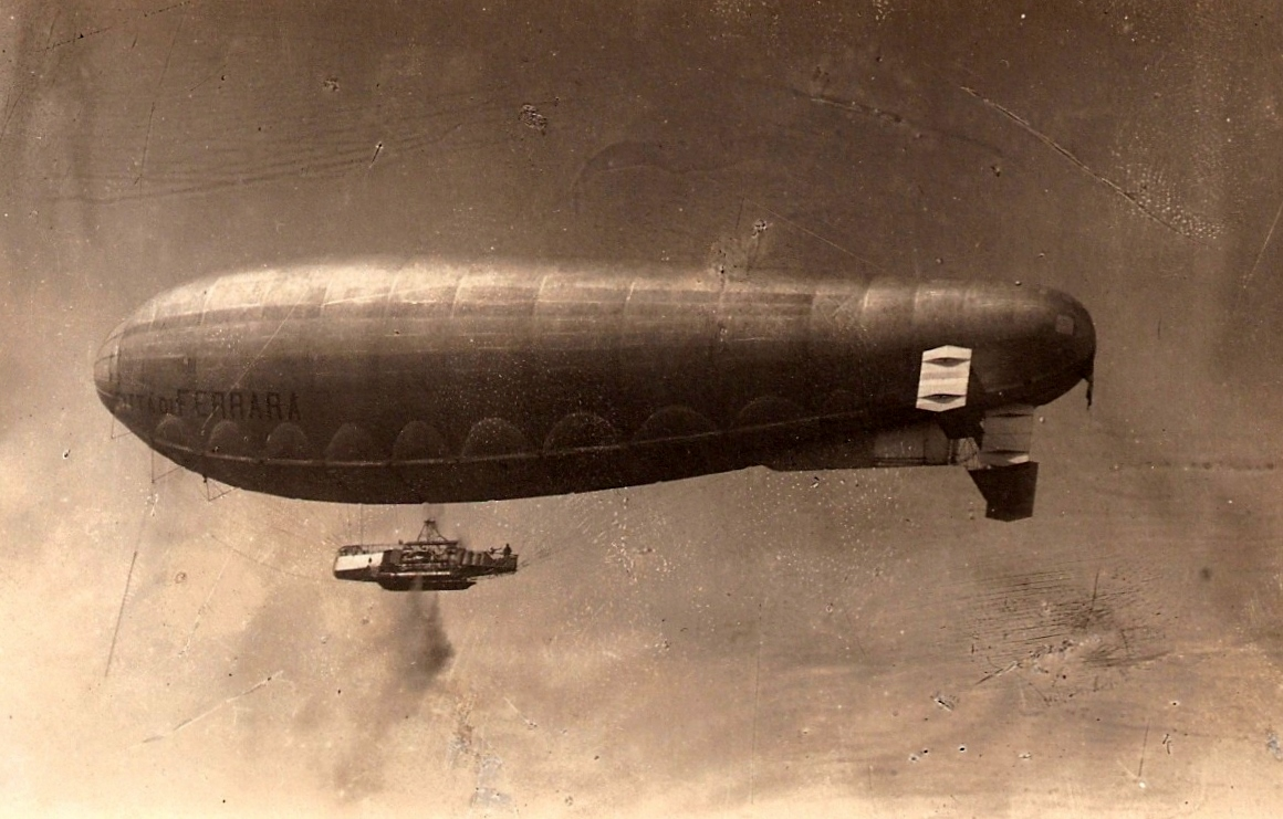 "City of Ferrara" Dirigible. The original picture, by Carlo Burzagli, is dated 1914, was scanned by Emiliano Burzagli, and belongs to the Private archive of Burzagli family, Italy.